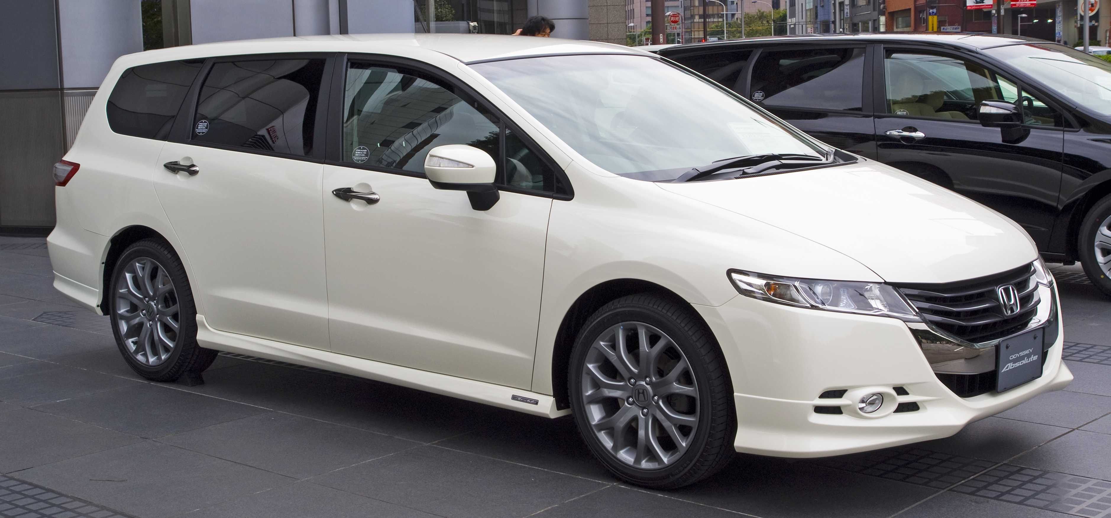 2008 RB3/4 Honda Odyssey Absolute photographed in Honda Welcome Plaza Aoyama (Minato, Tokyo)